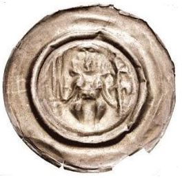 Meissen. Heinrich the Illustrious. Heinrich seated. Bonhoff 1032